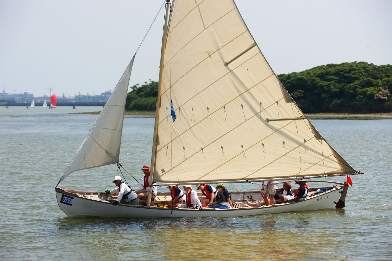 Near the finish in Velalonga Race in Venice, June 2010 Molly about to win her class.